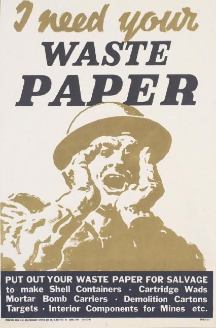 I Need Your Waste Paper whole: the image is positioned in the lower two-thirds. The title is partially integrated and placed in the upper third, in brown and in blue. The text is separate and located in the lower fifth, in white, held within a blue inset. All set against a white background. image: a shoulder-length depiction of a British infantryman, raising both of his hands to his mouth as he calls out. text: I need your WASTE PAPER PUT OUT YOUR WASTE PAPER FOR SALVAGE to make Shell Containers Cartridge Wads Mortar Bomb Carriers Demolition Cartons Targets Interior Components for Mines etc. PRINTED FOR H.M. STATIONERY OFFICE BY W. R. ROYLE and SON, LTD. 51-3748 M.O.S 121